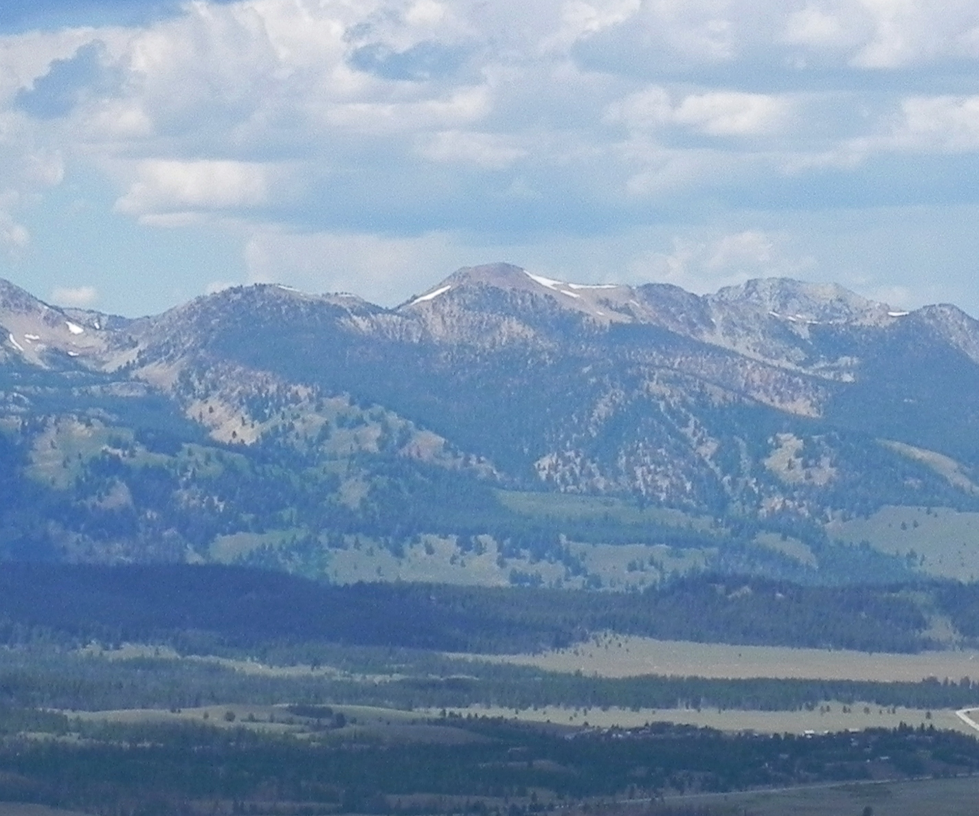 McDonald Peak at center and Parks Peak at right in the Sawtooth Range in Sawtooth National Recreation Area, Idaho.